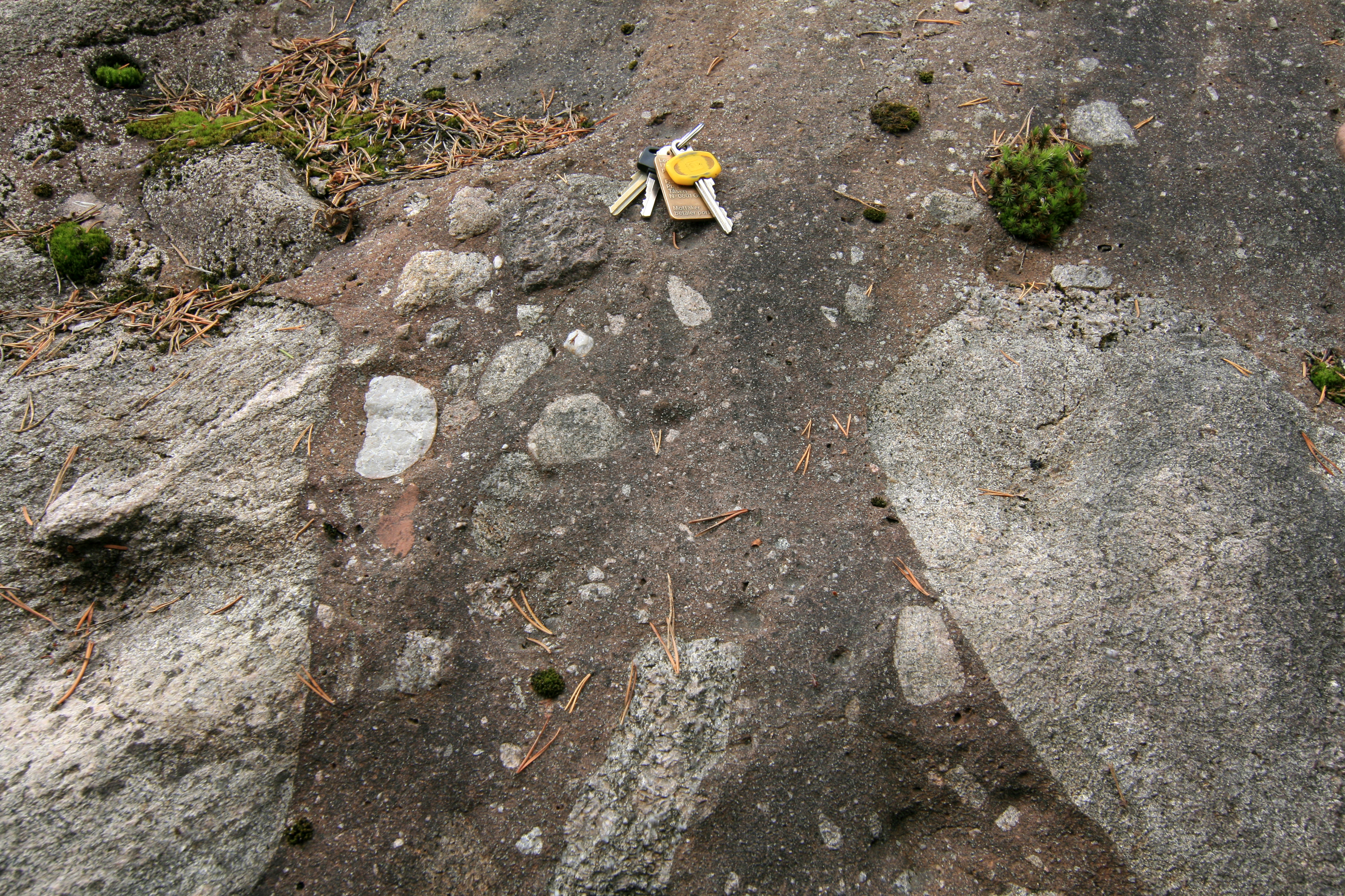 Exposure of Moelv tillite, Moelv, Ringsaker, Norway.